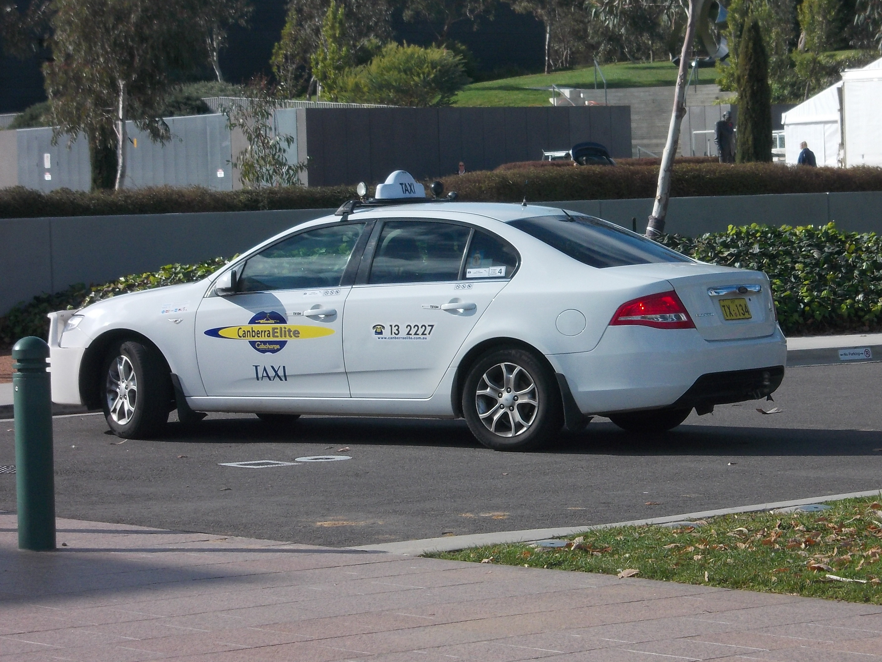 2009 Ford Falcon (FG) XT Canberra Elite Taxi TX 134, photographed at the Australian War Memorial, Canberra, Australia